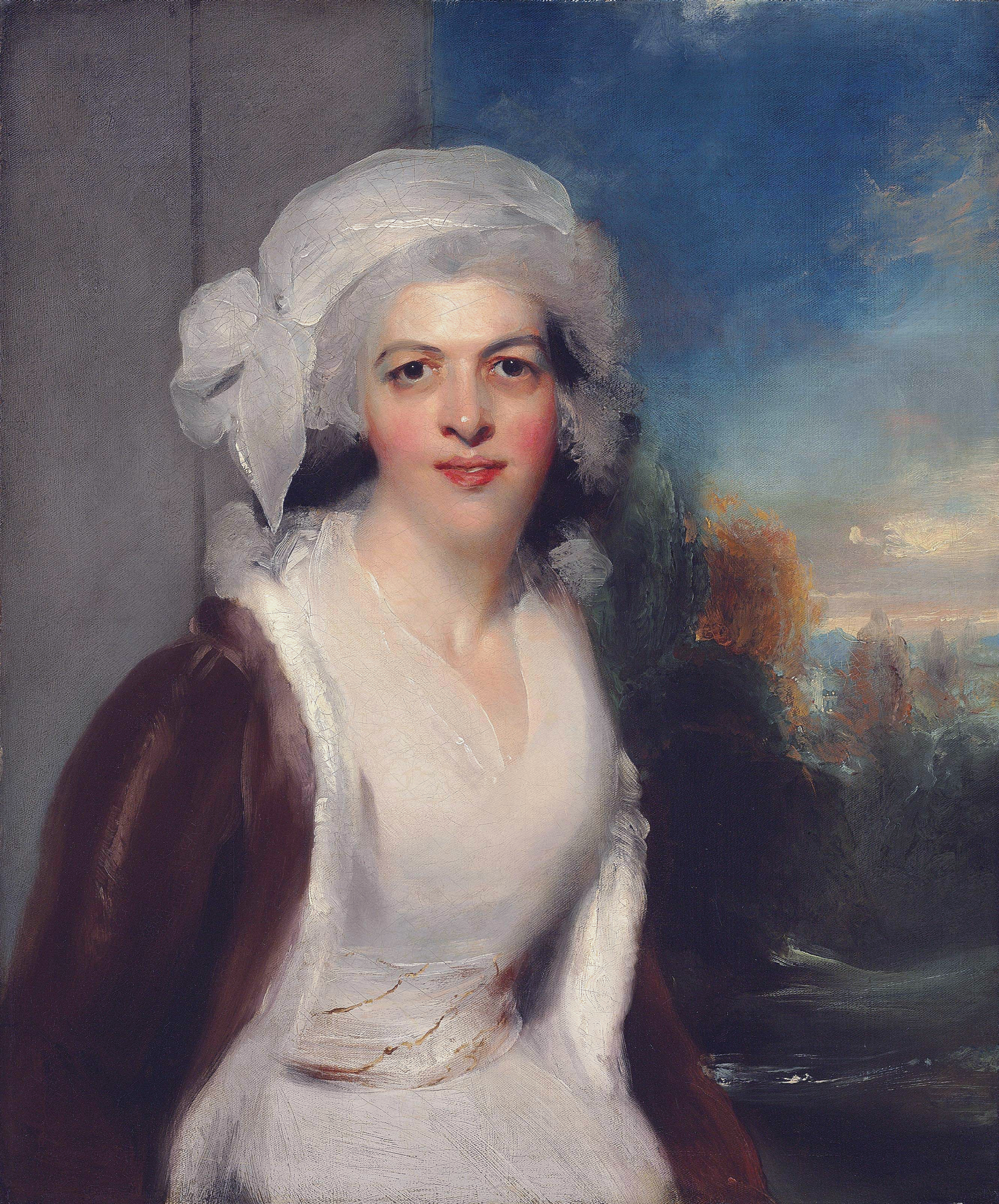 Rebecca Cornwall was the daughter of John Cornwall of Hendon House. In 1783 she married Sir John Simeon, Bart. (1756-1824) of Walliscot, Oxfordshire. The M.P. for Reading 1797-1802 and 1806-1818, he was also a practicing barrister and a member of Lincoln's Inn as well as Recorder of Reading 1779-1807 and Master in Chancery from 1795 until 1808 when he became Senior Master. Lady Simeon died in 1830.